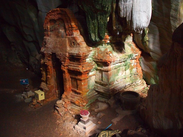 Phnom Chhnork temple in a cave (Kampot, Cambodia 2012)